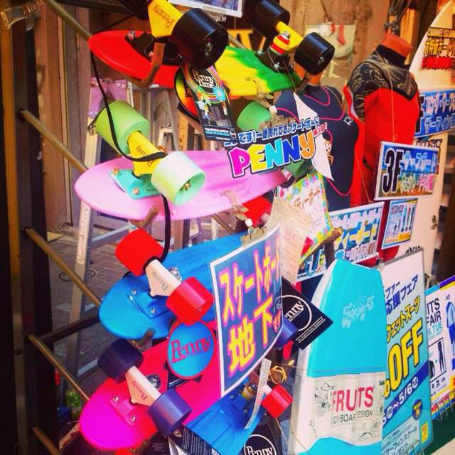 Penny Skateboard at a skateboard and surfer shop in Shibuya, Tokyo